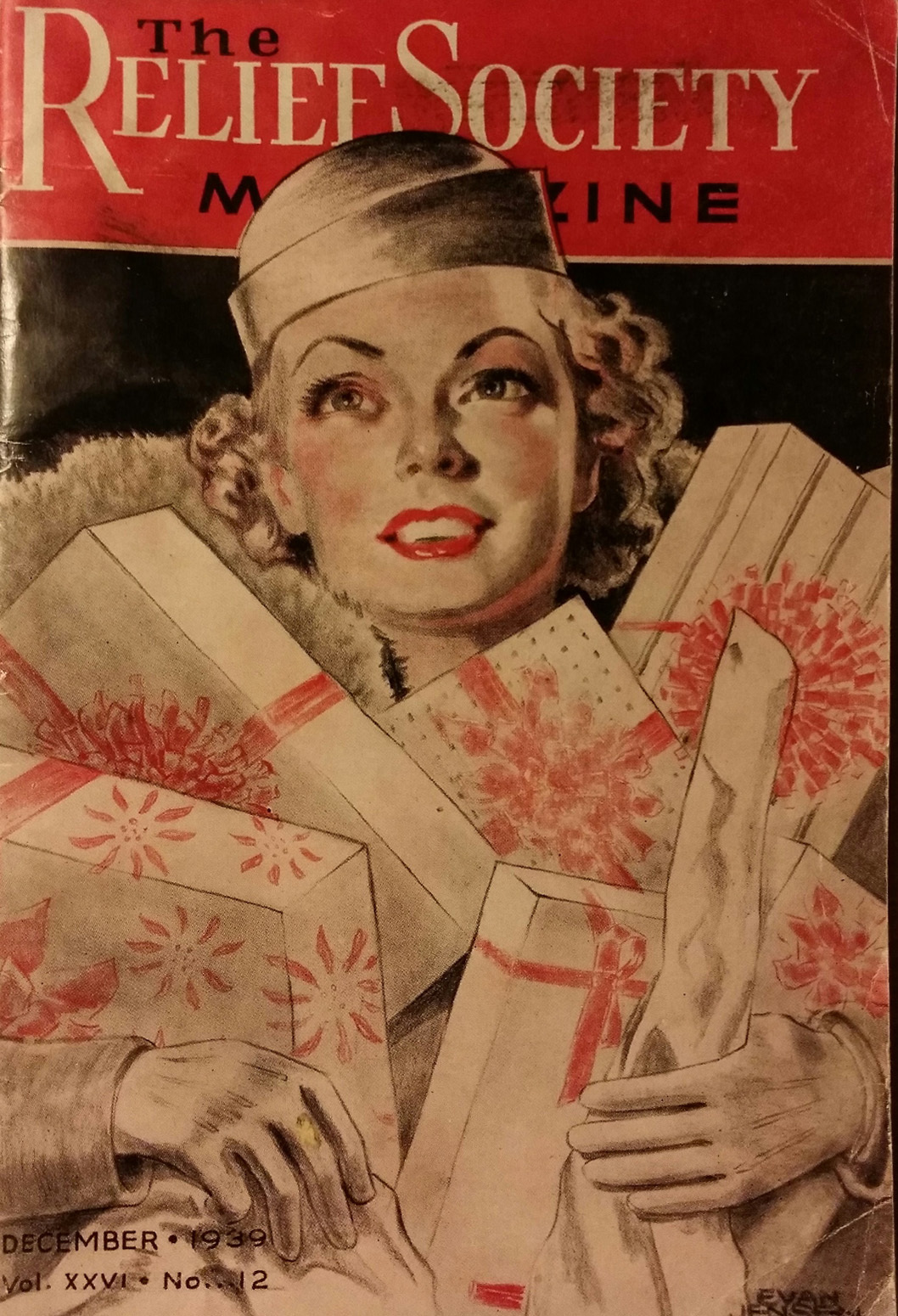 relief_society_mag_cover_1939_original